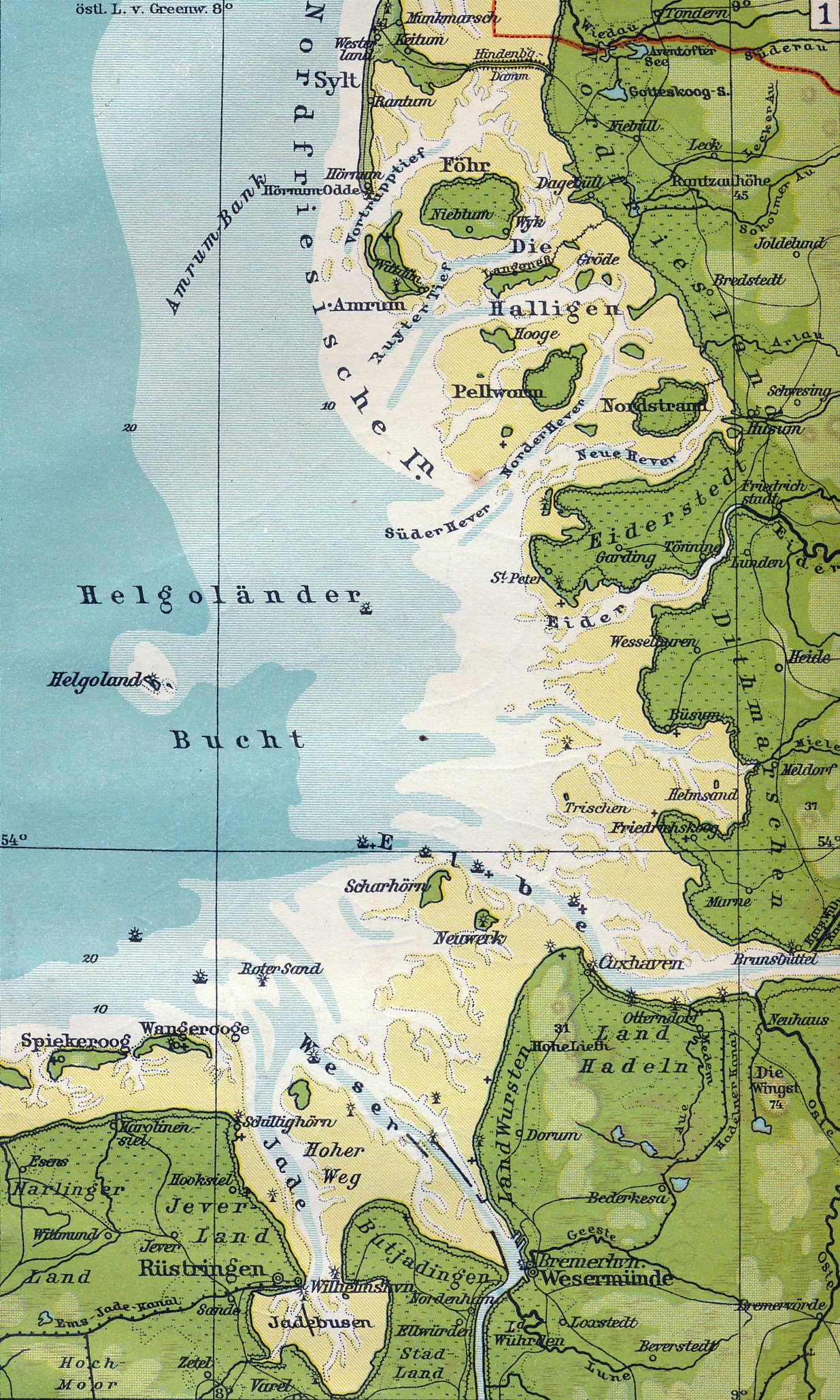 This is a part of an old atlas. It does not necessarily represent the current situation.